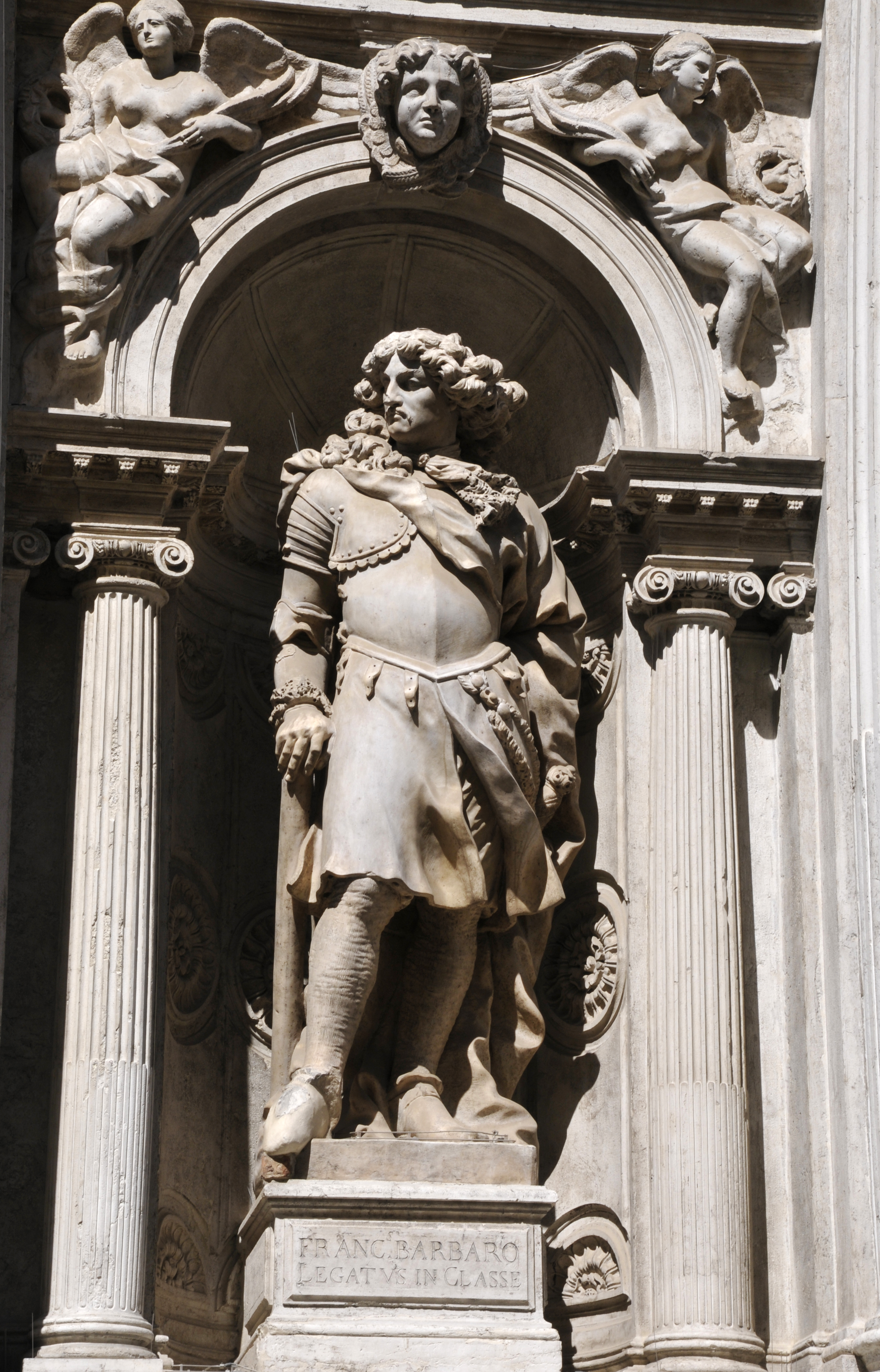 Francesco Barbaro attributed to Enrico Merengo at the church of Santa Maria del Giglio in Venice, Italy